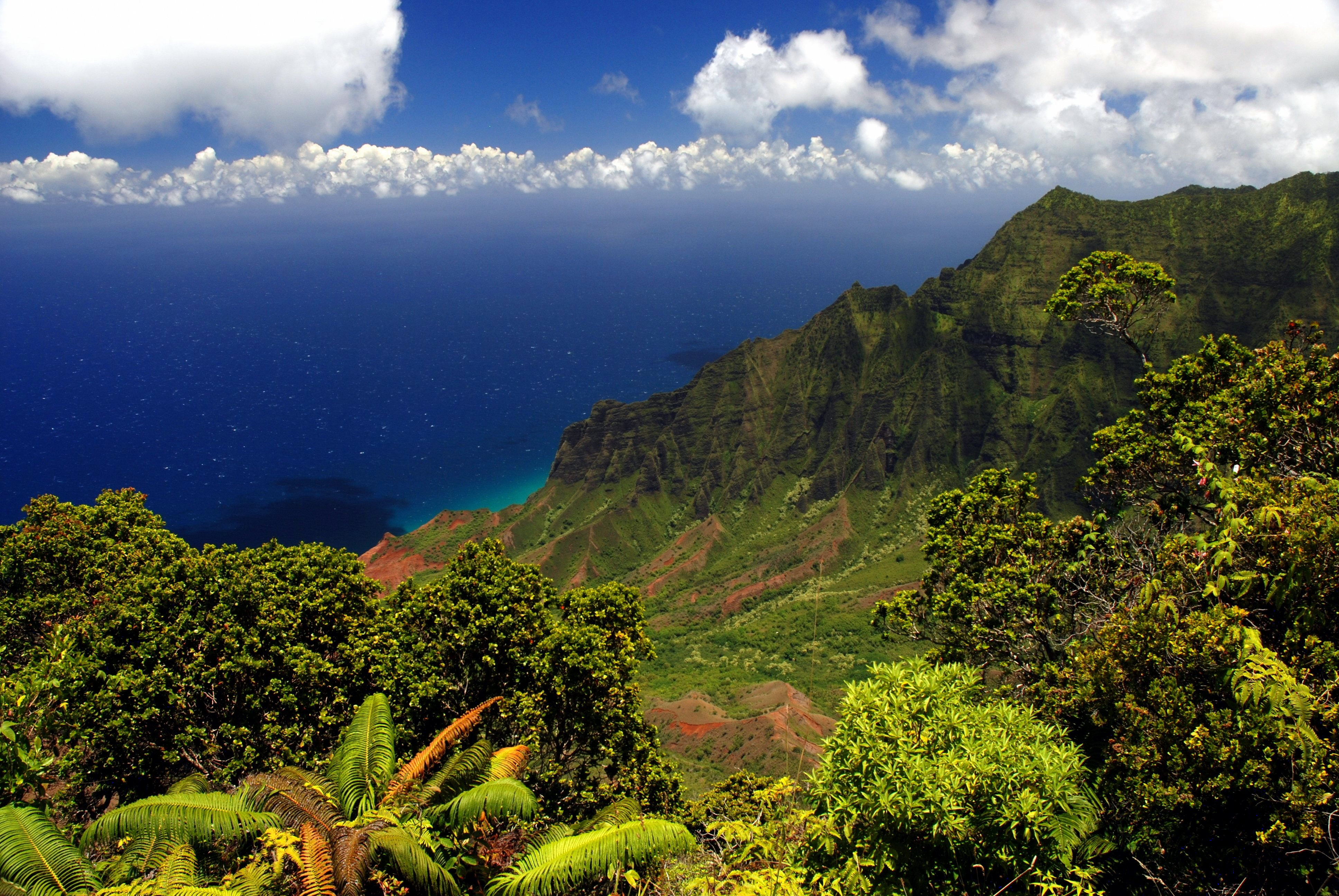 Napali Coast view